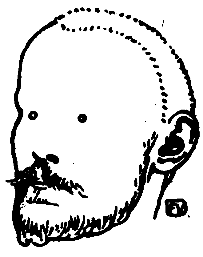 Portrait of French writer Jules Renard (1864-1910) from Le Livre des masques (vol. II, 1898) by Remy de Gourmont (1858-1916)